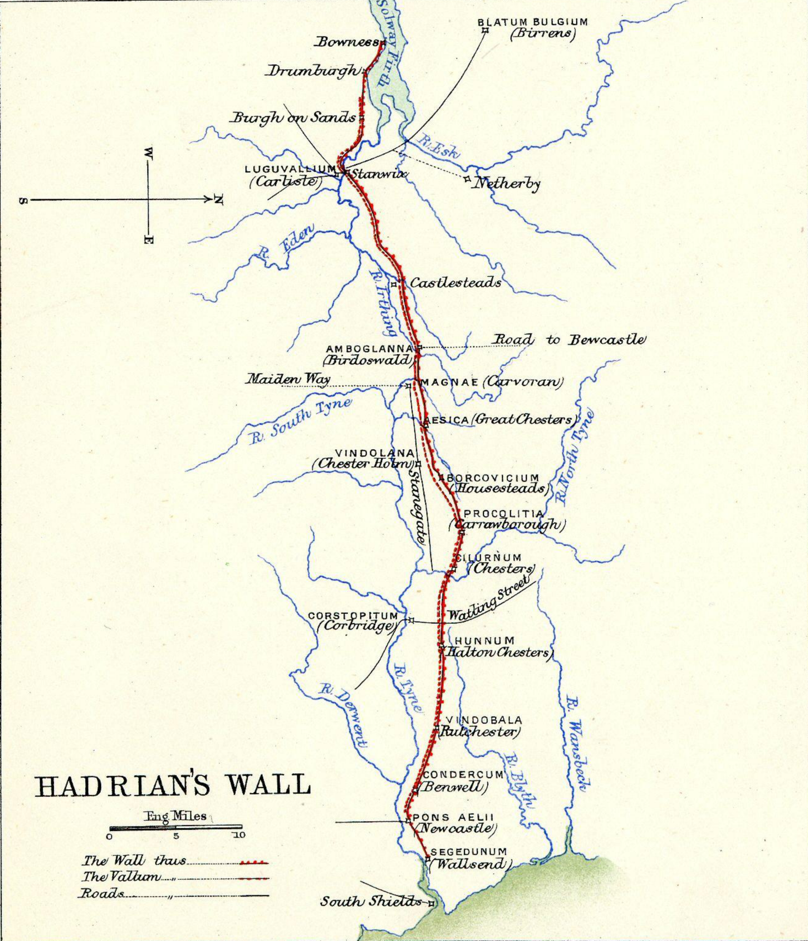 "Hadrian's Wall", a diagram from Plate 15 in R. Lane Poole's Historical Atlas of Modern Europe